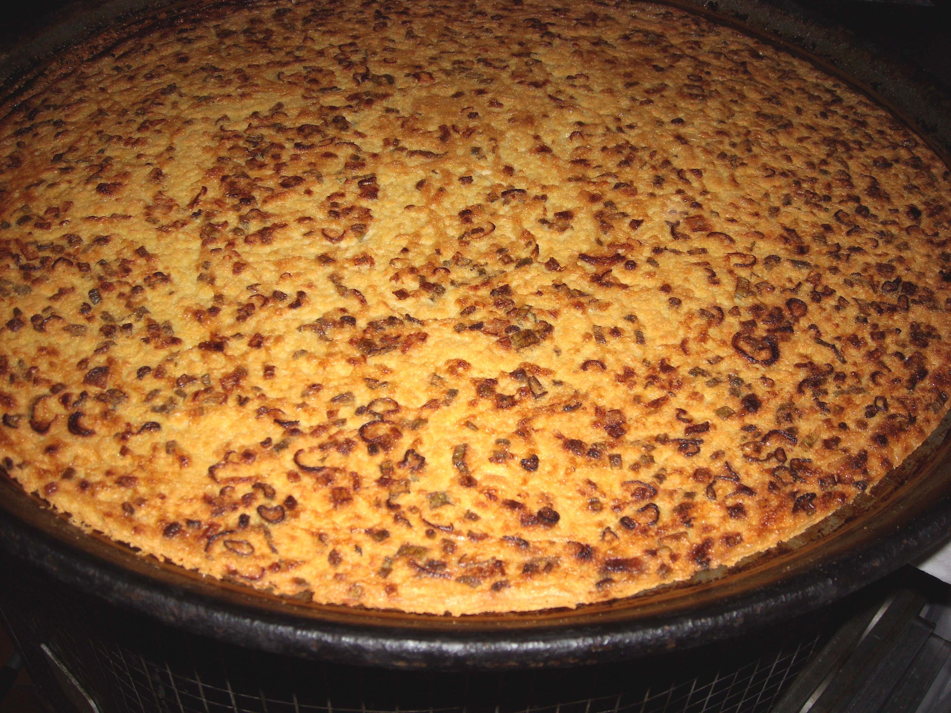 Farinata with spring onions, tipical dish from Oneglia in Liguria, Italy.